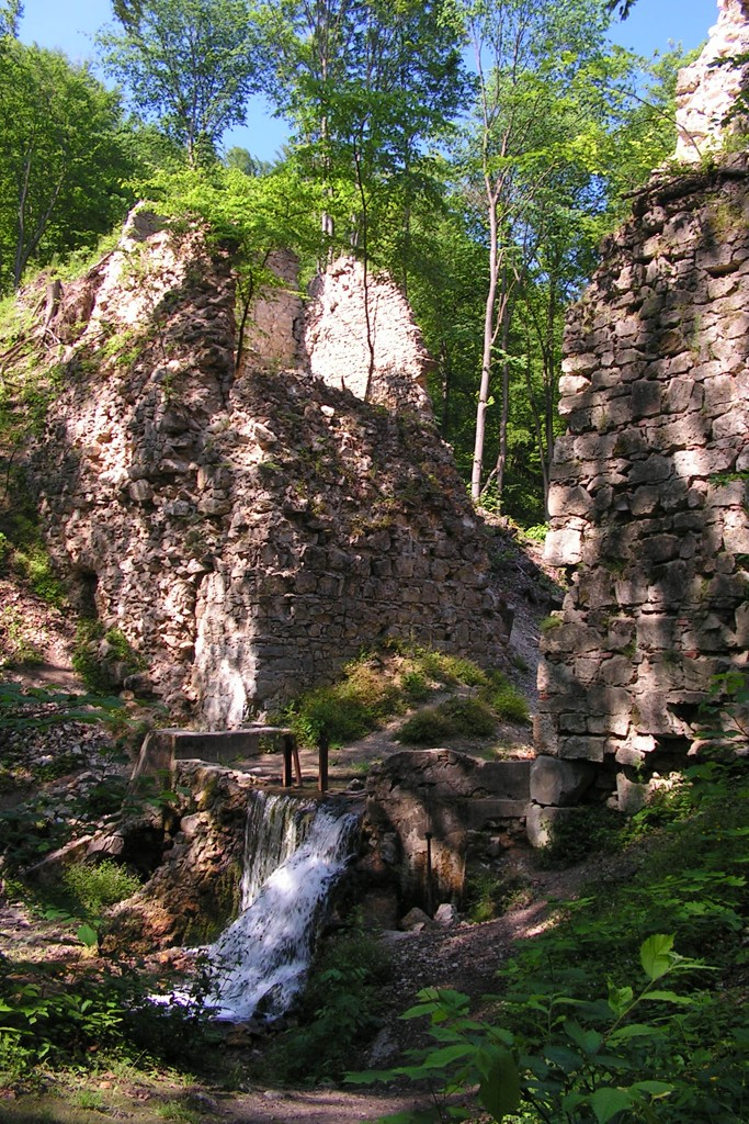 The ruins of 'Devil's Bridge' in Czerna near Krzeszowice, Poland.